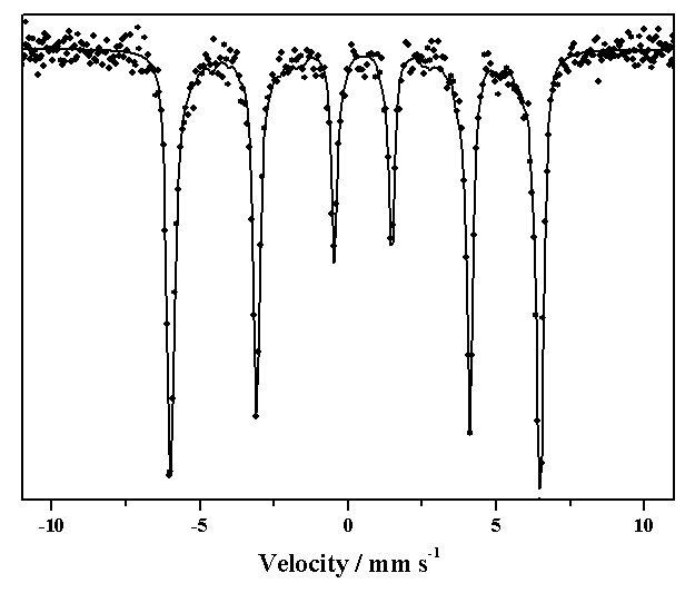 Mossbauer spectrum of goethite